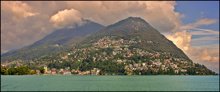 Monte Bré (nearer) and Monte Boglia (farther peak) on Lake Lugano near Lugano, Switzerland